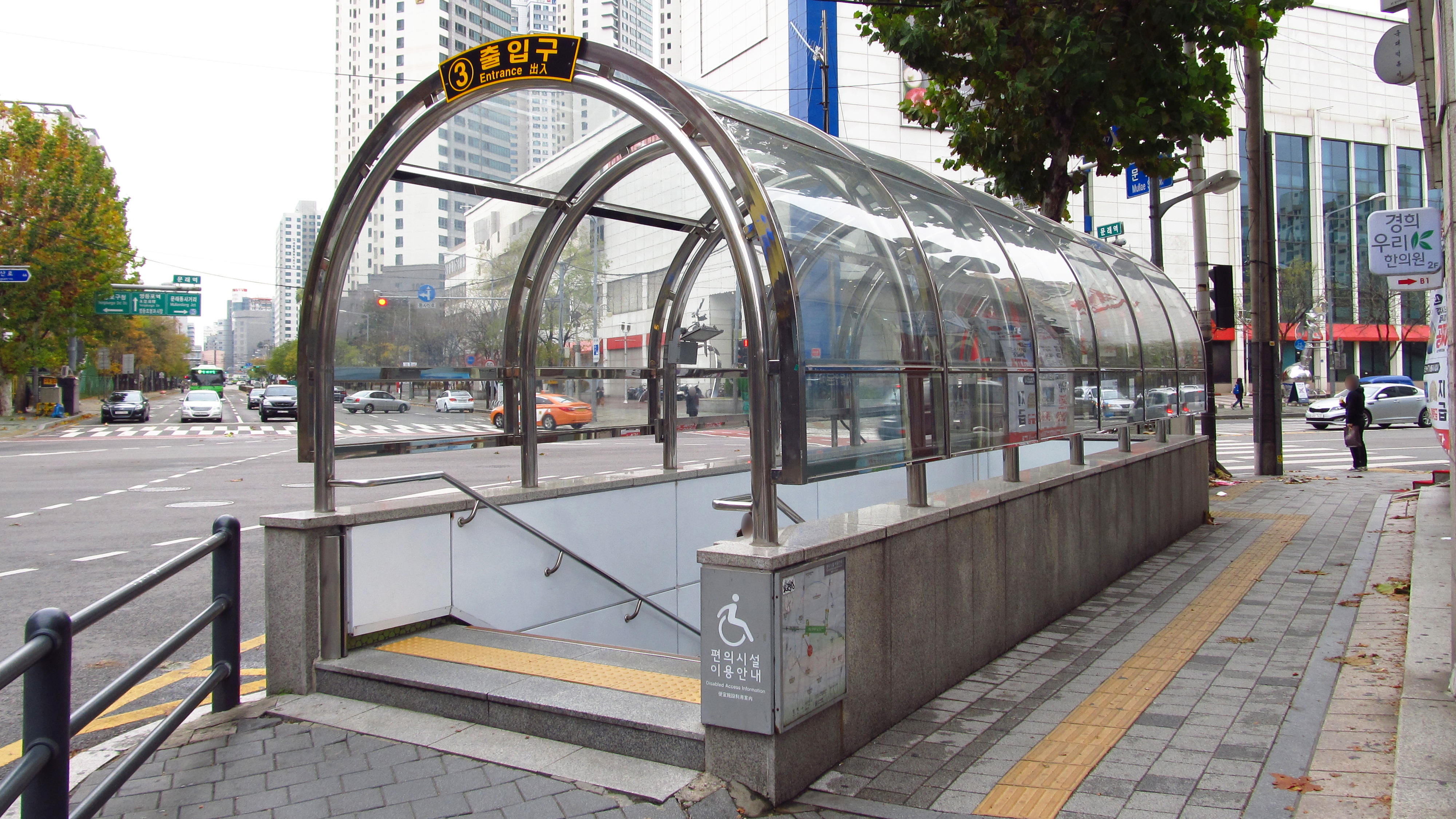 The no.3 entrance to Mullae Station on the Seoul Metro Line 2 in Yeongdeungpo-gu, Seoul, Republic of Korea(South Korea)